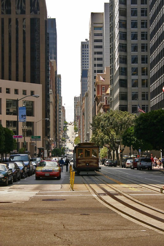 Kelvin Kay user:kkmd